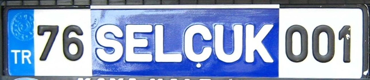 A car vanity registration plate in Iğdır, Turkey